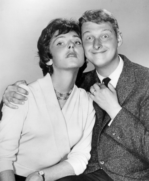 Photo of Elaine May and Mike Nichols as publicity for a television special The Fabulous Fifties.